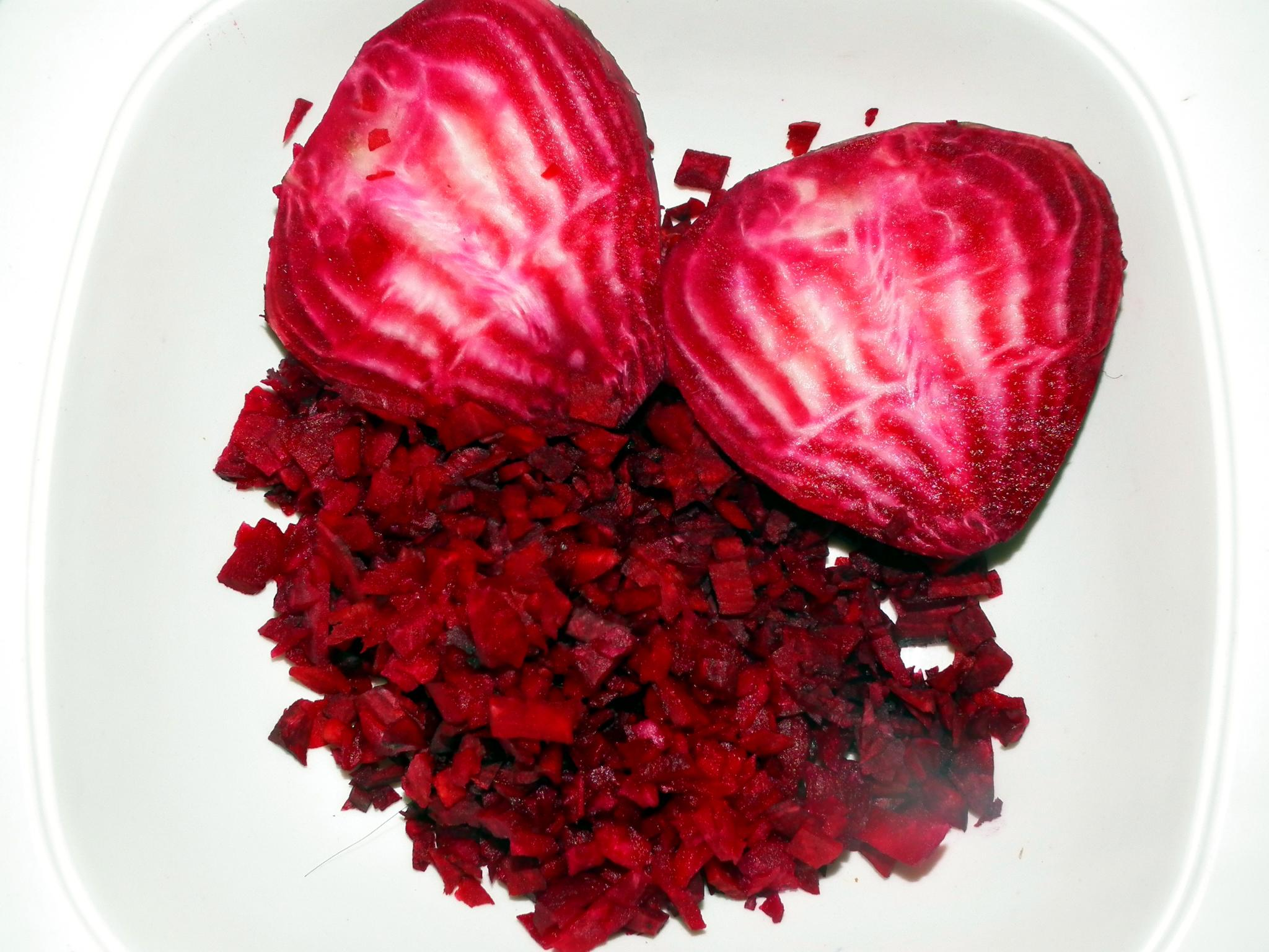 The usually deep-red roots of beetroot are eaten boiled either as a cooked vegetable, or cold as a salad after cooking and adding oil and vinegar, or raw and shredded, either alone or combined with any salad vegetable. A large proportion of the commercial production is processed into boiled and sterilised beets or into pickles. In Eastern Europe beet soup, such as borscht, is a popular dish. Yellow-coloured beetroots are grown on a very small scale for home consumption